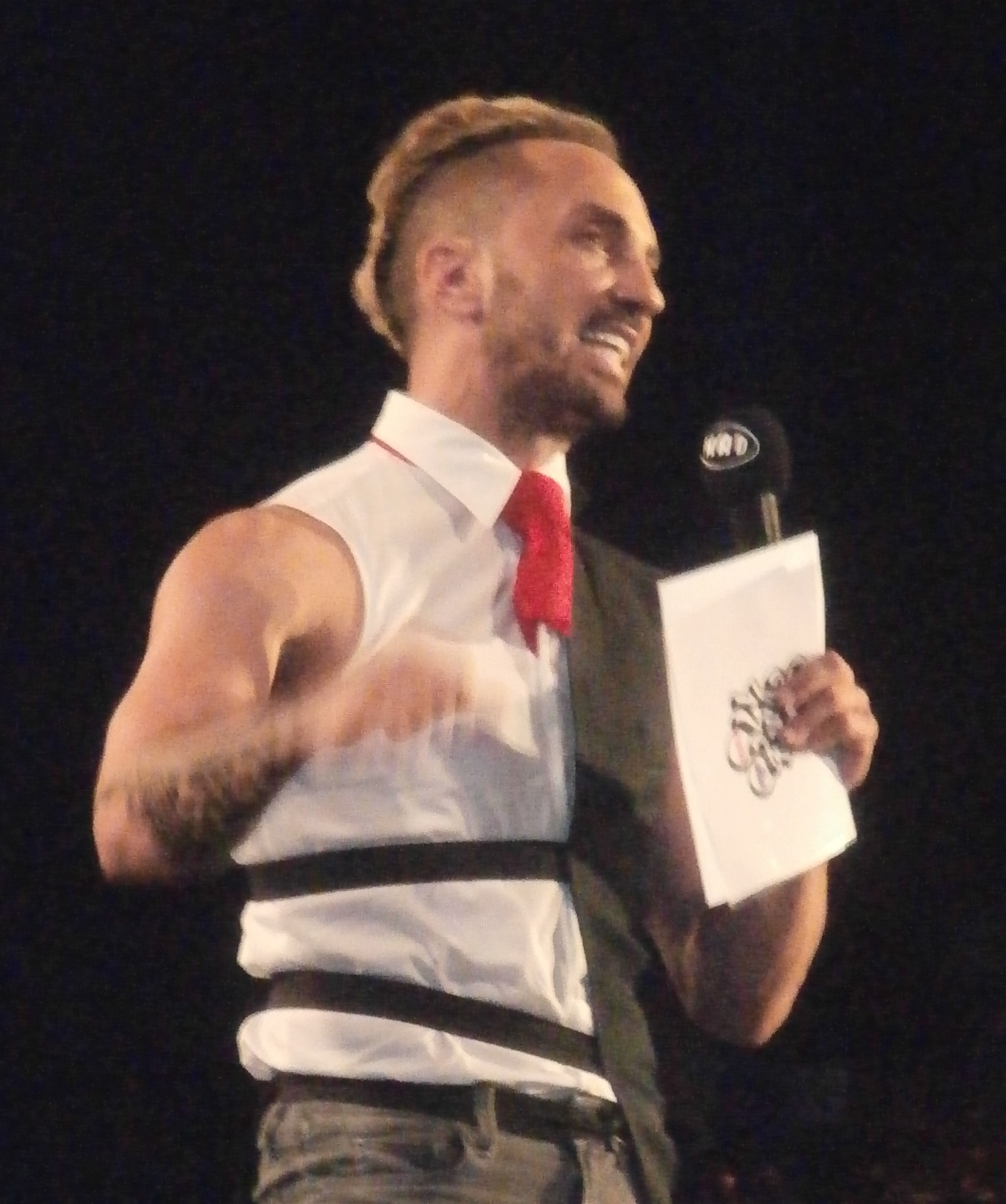 Ioannis Melissanidis at MAD Video Music Awards 2017, ready to anounce an award.